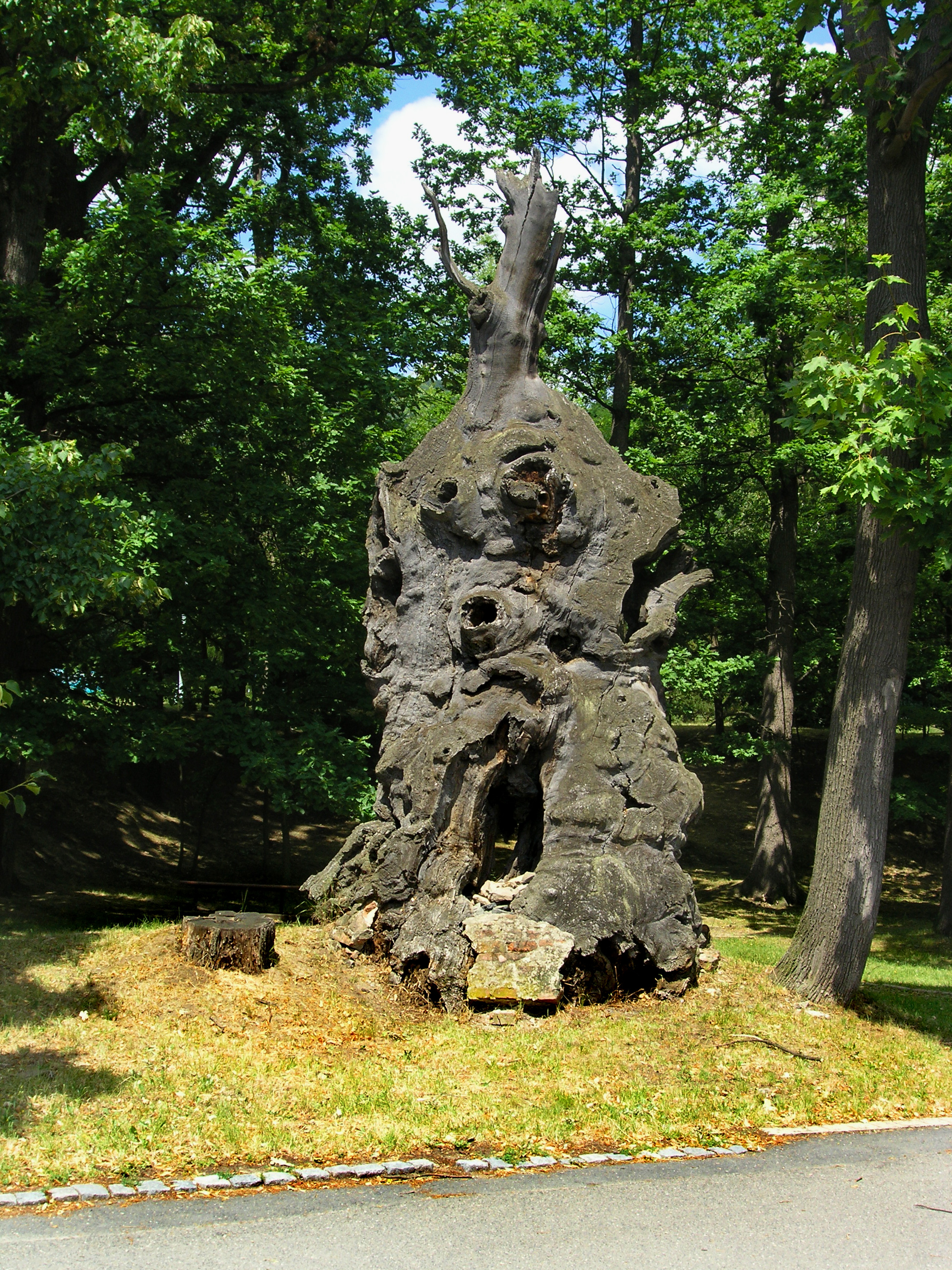 Old oak torso by Tyršova street in Osek town, Czech Republic